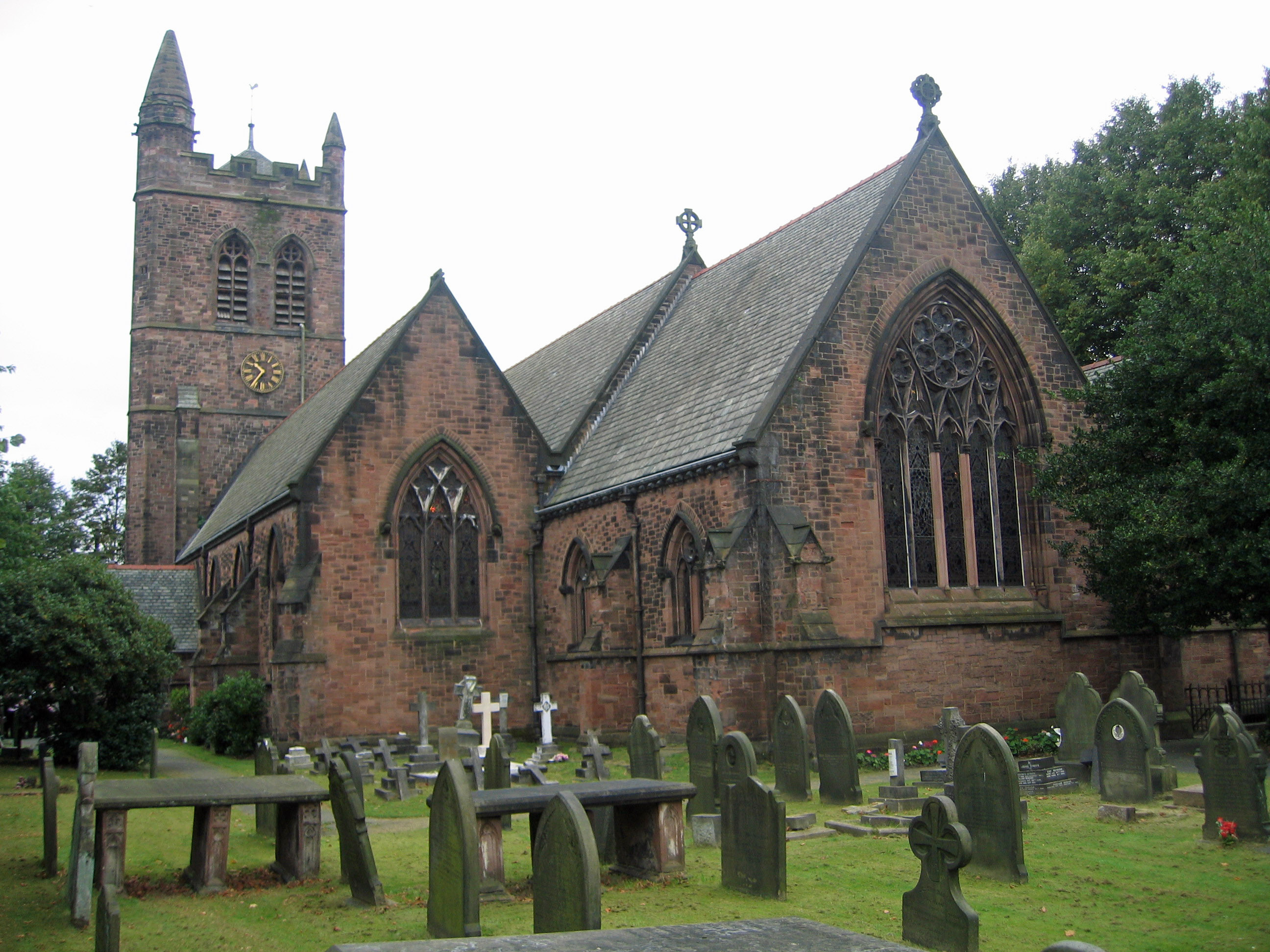 Photograph from the southeast